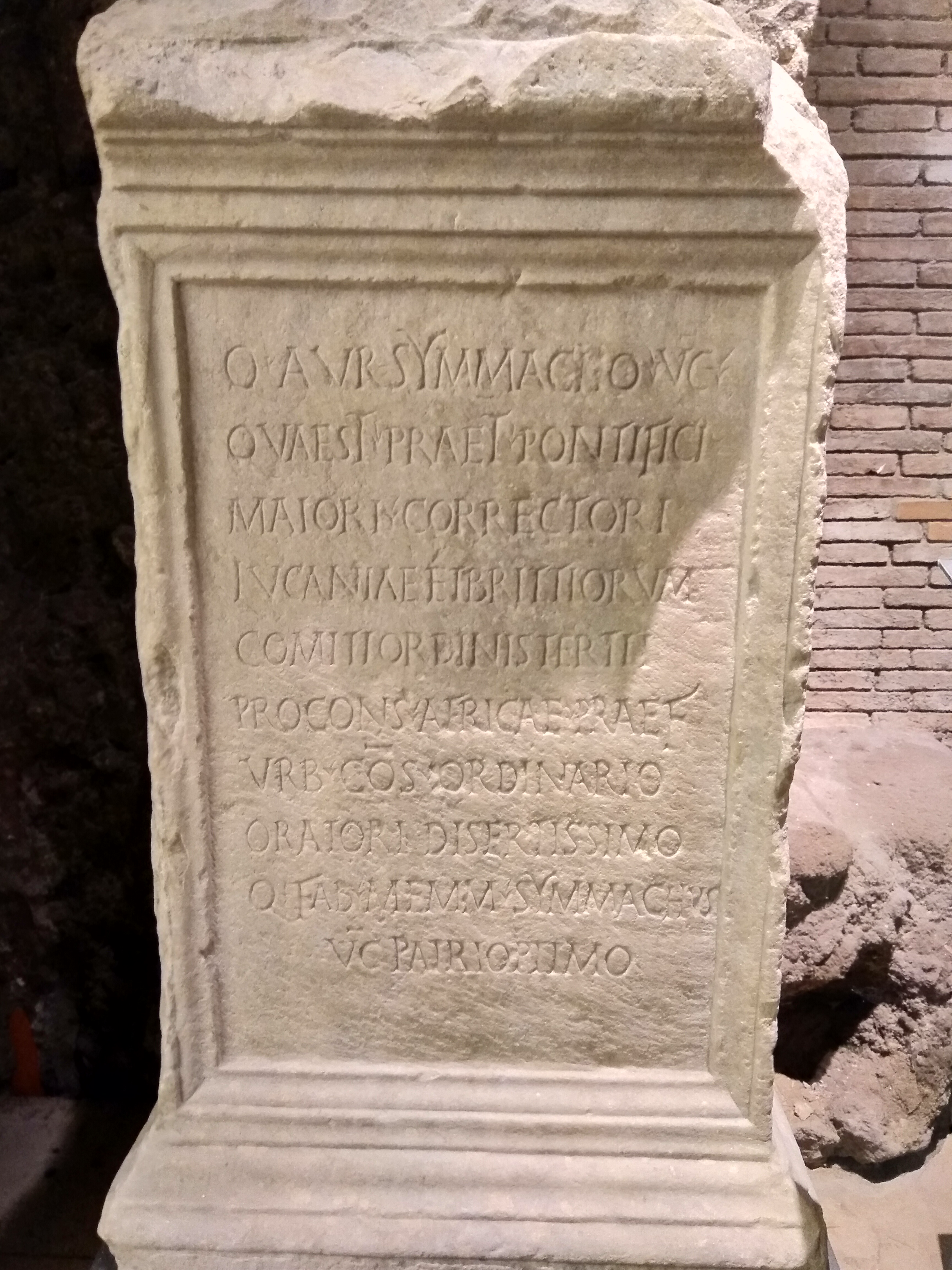 Base of the statue to Quintus Aurelius Symmachus, from the Musei Capitolini CIL 06, 01699 (p 3173, 3813, 4737, 4793) = CIL 06, 31903 = D 02946 = AE 2000, +00136